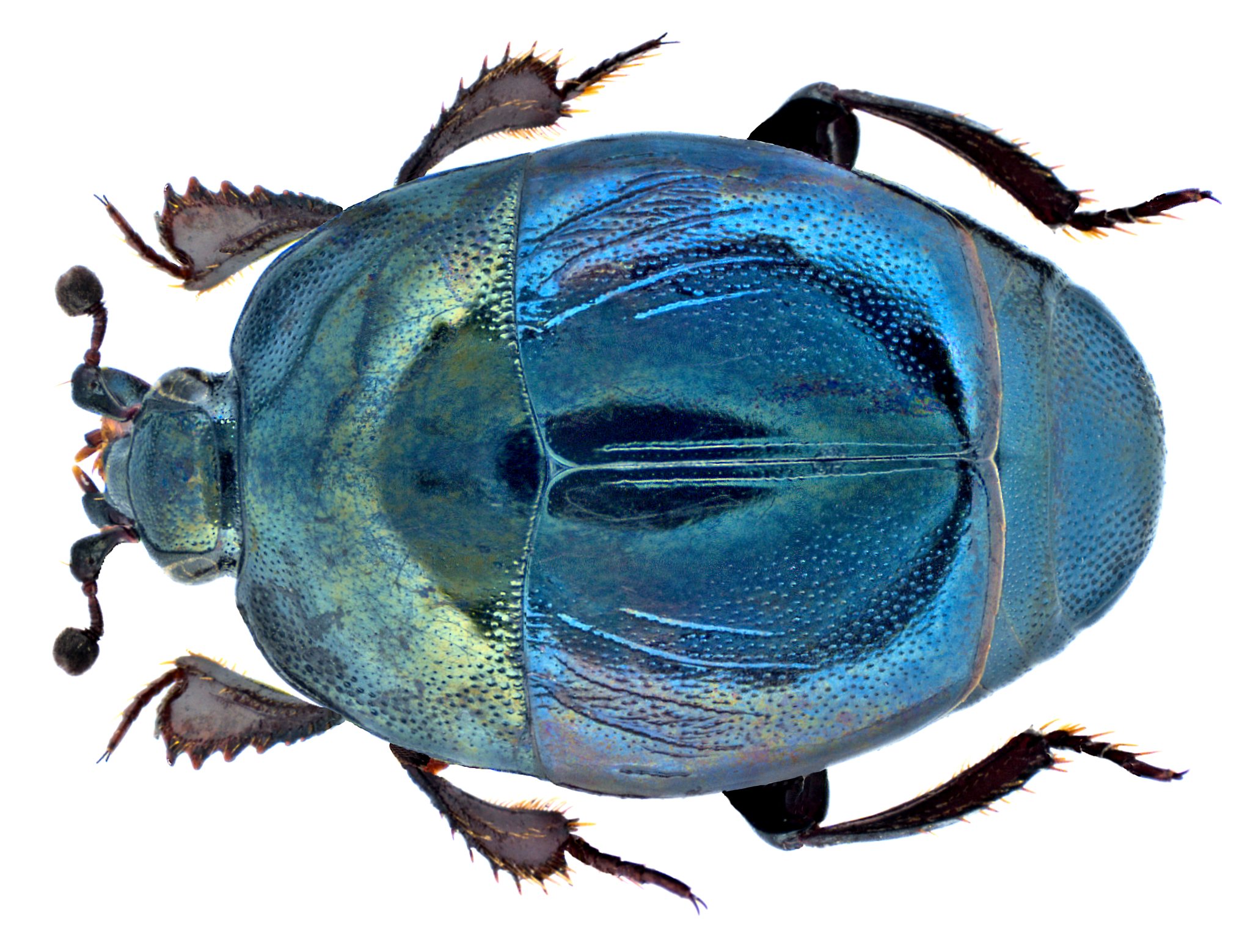 Family: Histeridae Size: 6,5 mm Location: India, South Goa, Distr. Canacona, Canacona, Raj Baga Beach leg. U.Schmidt, 16.-29.XI.2010; det. S.Mazur, 2012 Photo: U.Schmidt, 2014